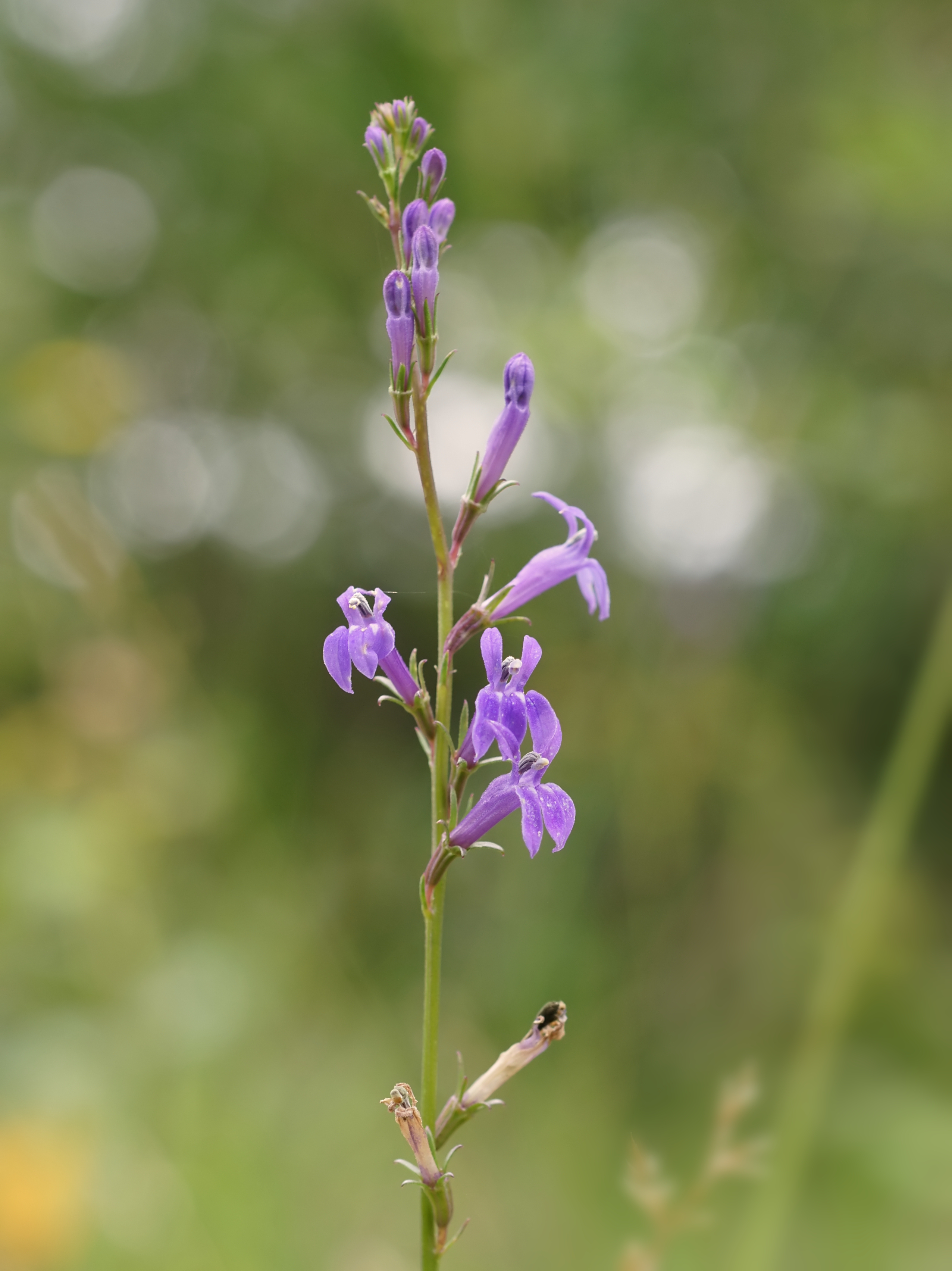 Heath lobelia close to Brigueuil, Charente, France